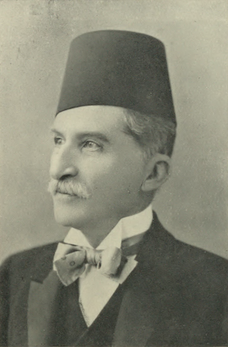 H.E. Moustapha Fehmy Pasha, Prime minister